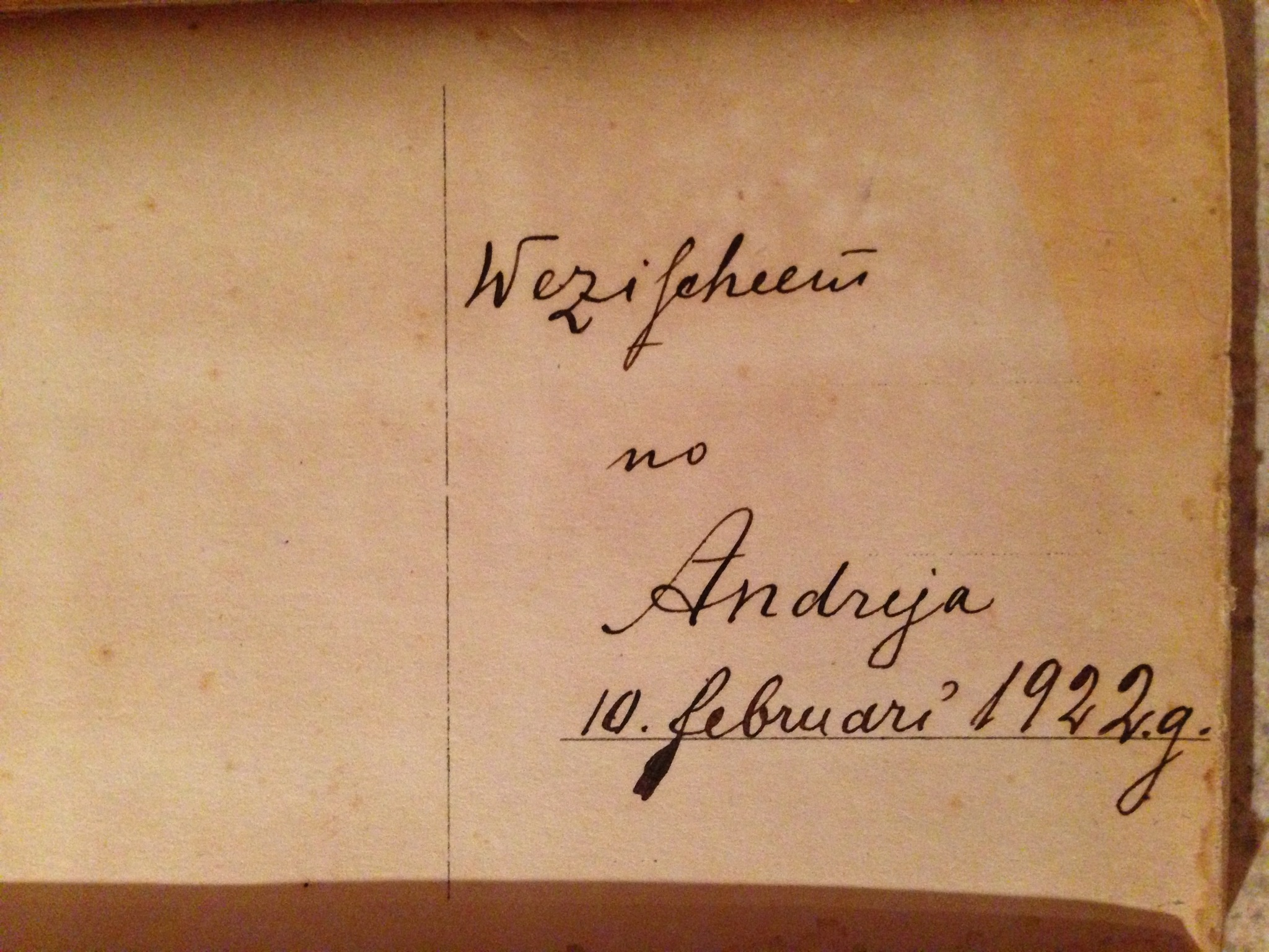 The back side of the portrait of Andrei Petrevics dated February 10, 1922.